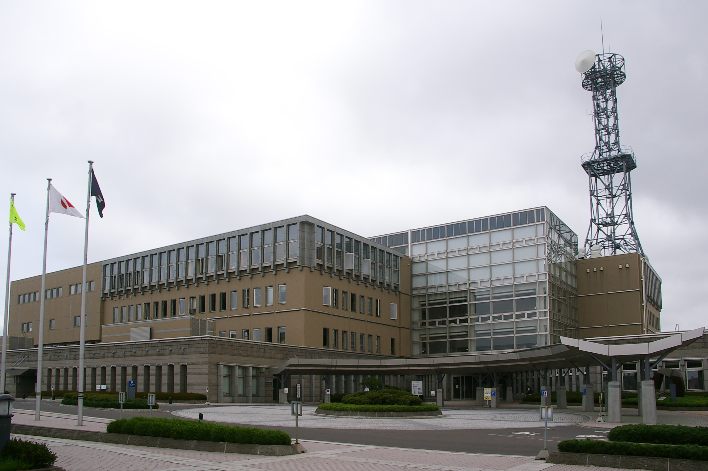 Photograph of Hokkaido Government Oshima Subprefectural Office in Hakodate, Hokkaido, Japan.